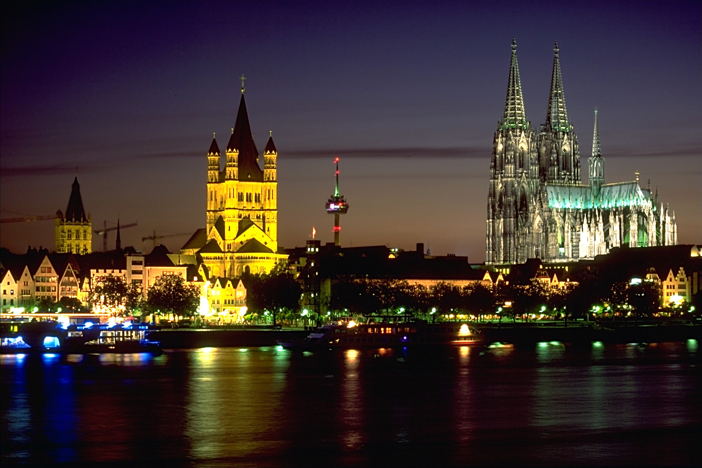 Skyline of Cologne at night Photo was taken using the following technique: Film: Fuji Velvia Lens: 4/35-70 Filter: none Body: Minolta 9000 Support: simple tripod Image with Information in English Bild mit Informationen auf Deutsch